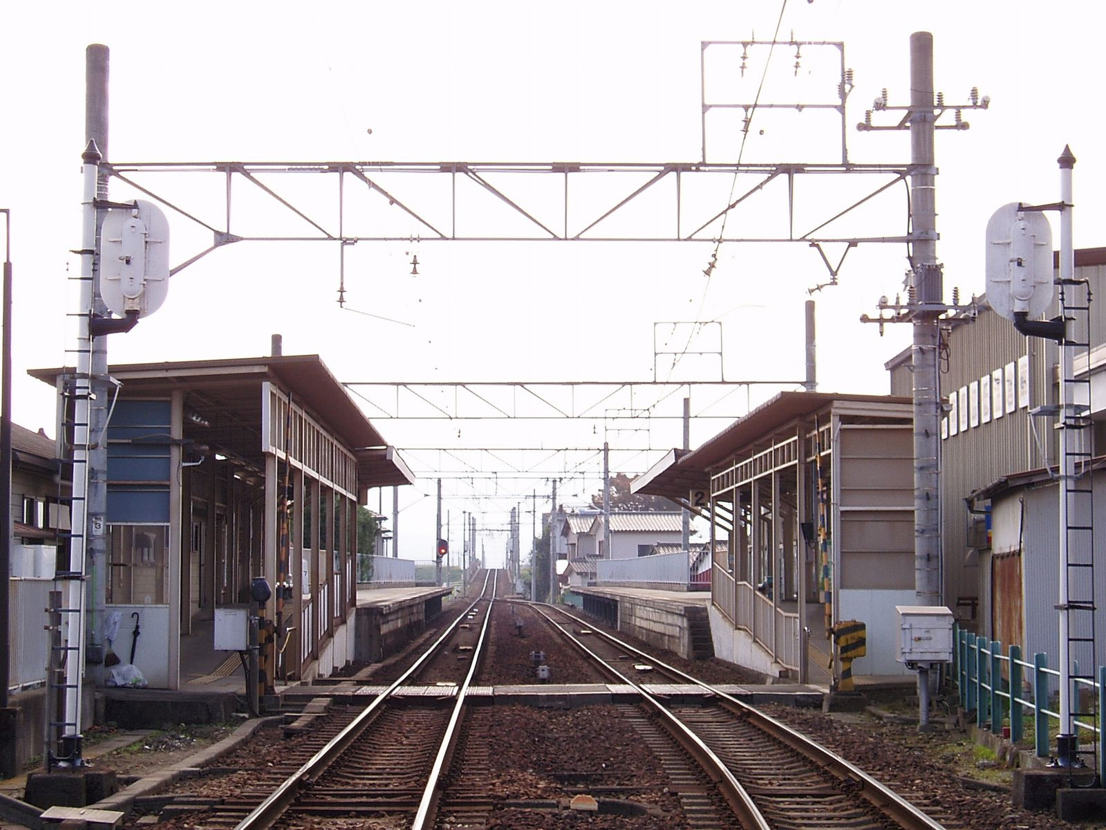 Isuhakone Railway Company, Isu-Nitta Sta. 2007.11.26 Photo by Cassiopeia_sweet.